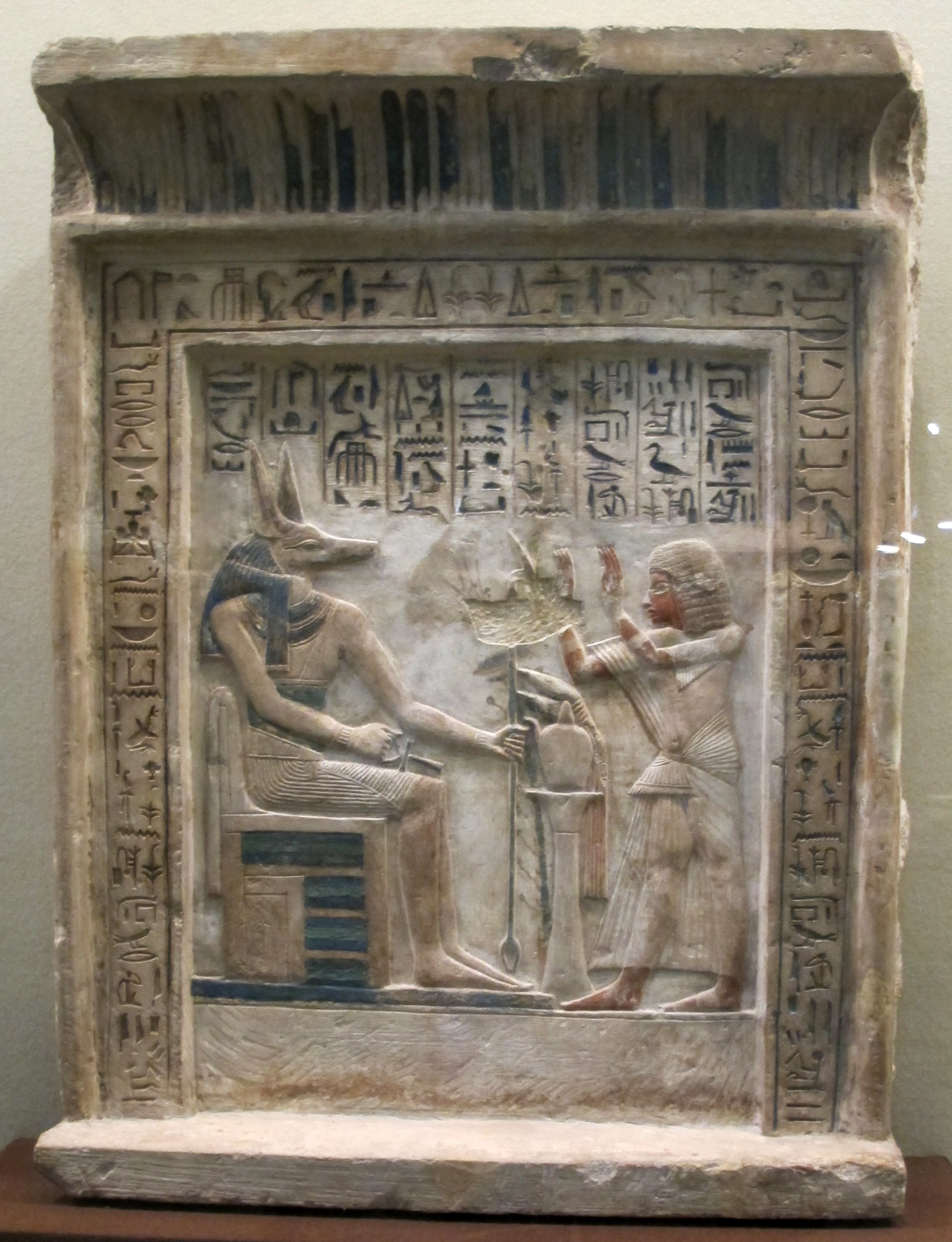 Stele of Ipi, royal scribe, "right-hand fan-bearer" and "great overseer of the royal household". The recipient is depicted while worshiping Anubis. Limestone, post-Amarna style, reign of Tutankhamun, late 18th Dynasty, New Kingdom. On display at the Hermitage Museum of St. Petersburg, Russia. Inv. No. ДВ-1072.